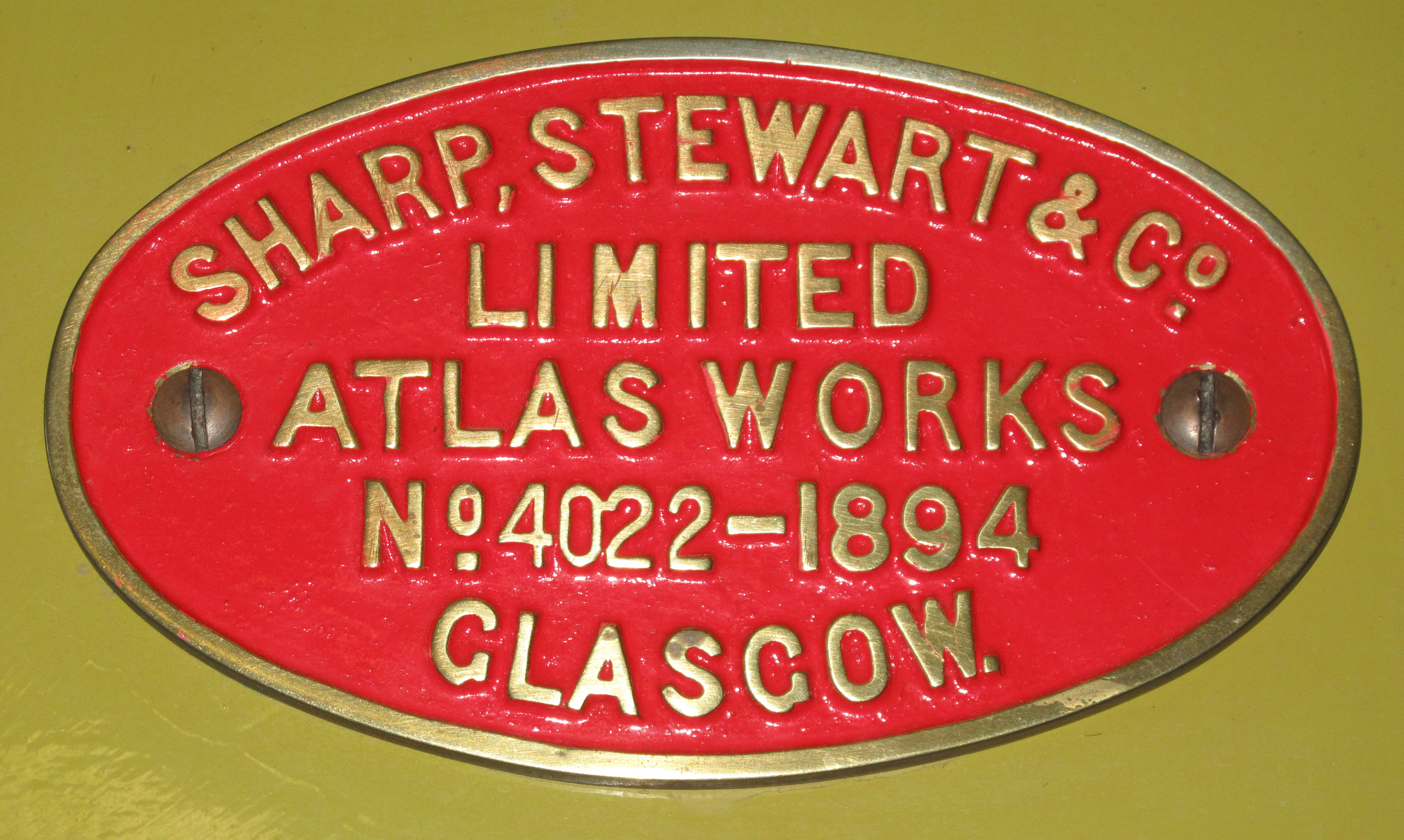 The maker's plate from Highland Railway Jones Goods at Glasgow Riverside Museum